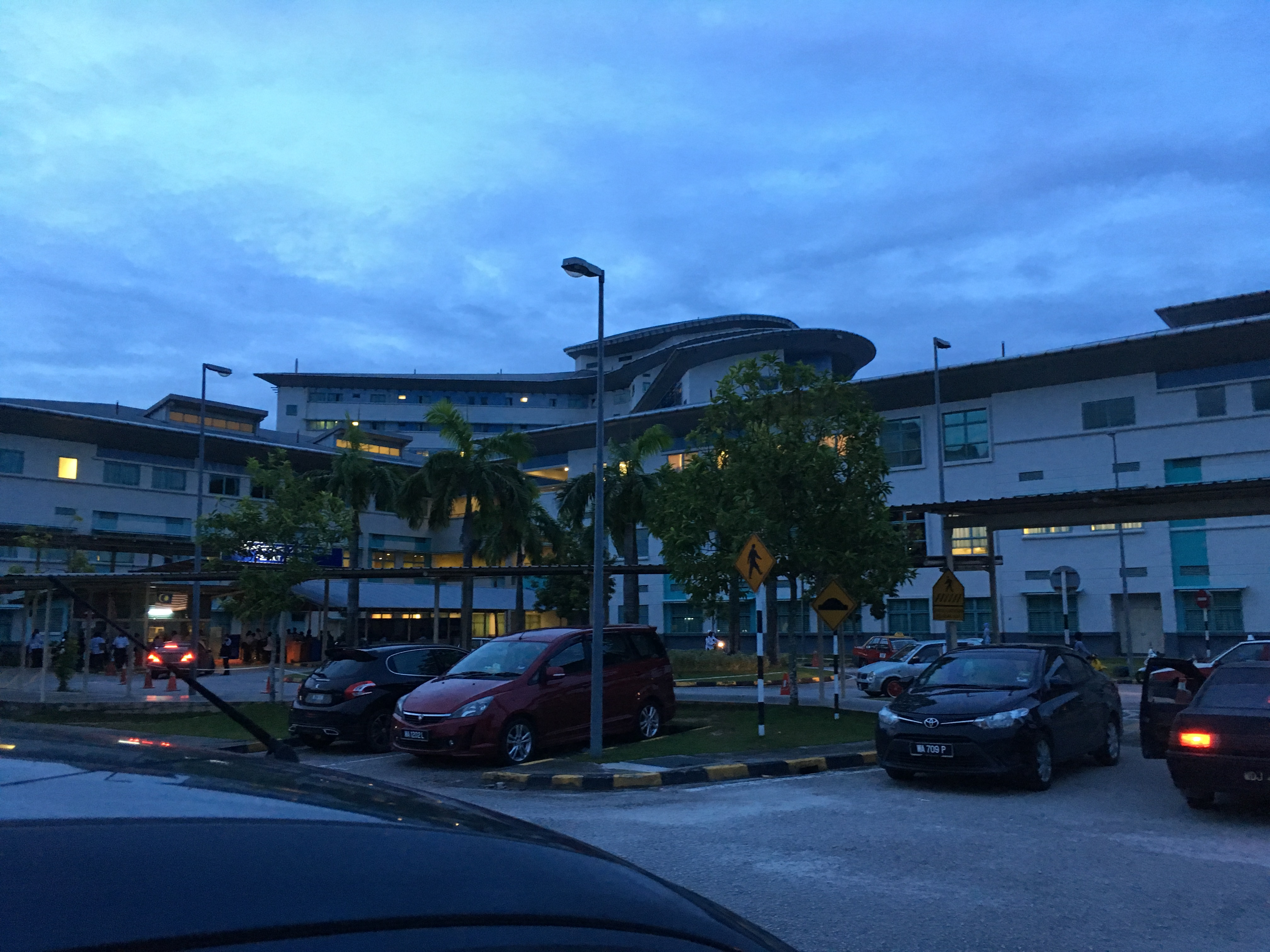 Sungai Buloh Hospital at dawn.